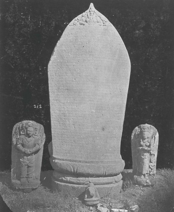 Indo-Javanese sculptures and a stone with inscriptions at the house of the 'Resident' in Kediri